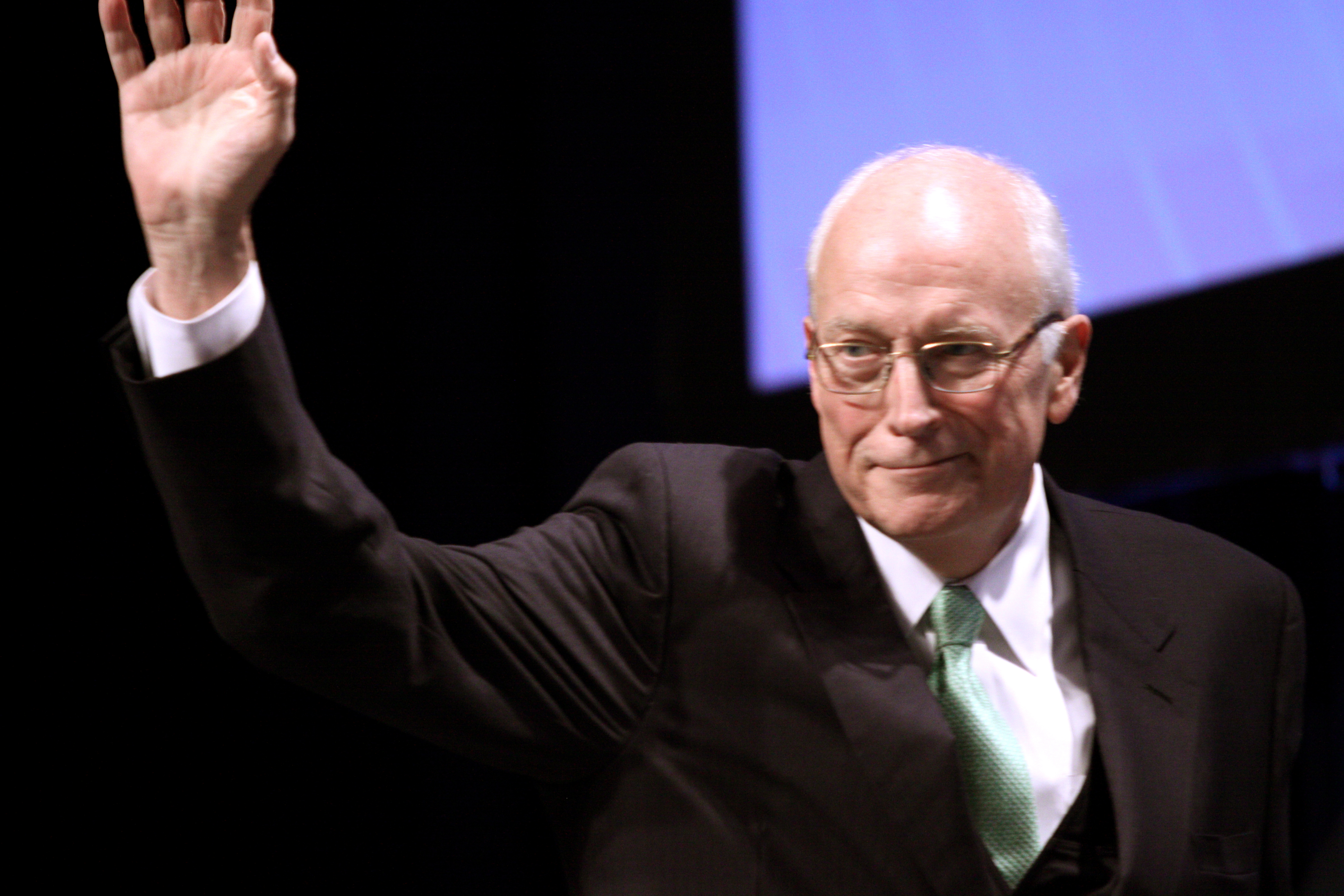 Former Vice President of the United States Dick Cheney, presenting former United States Secretary of Defense Donald Rumsfeld, at CPAC 2011 in Washington, D.C, the "Defender of the Constitution Award."